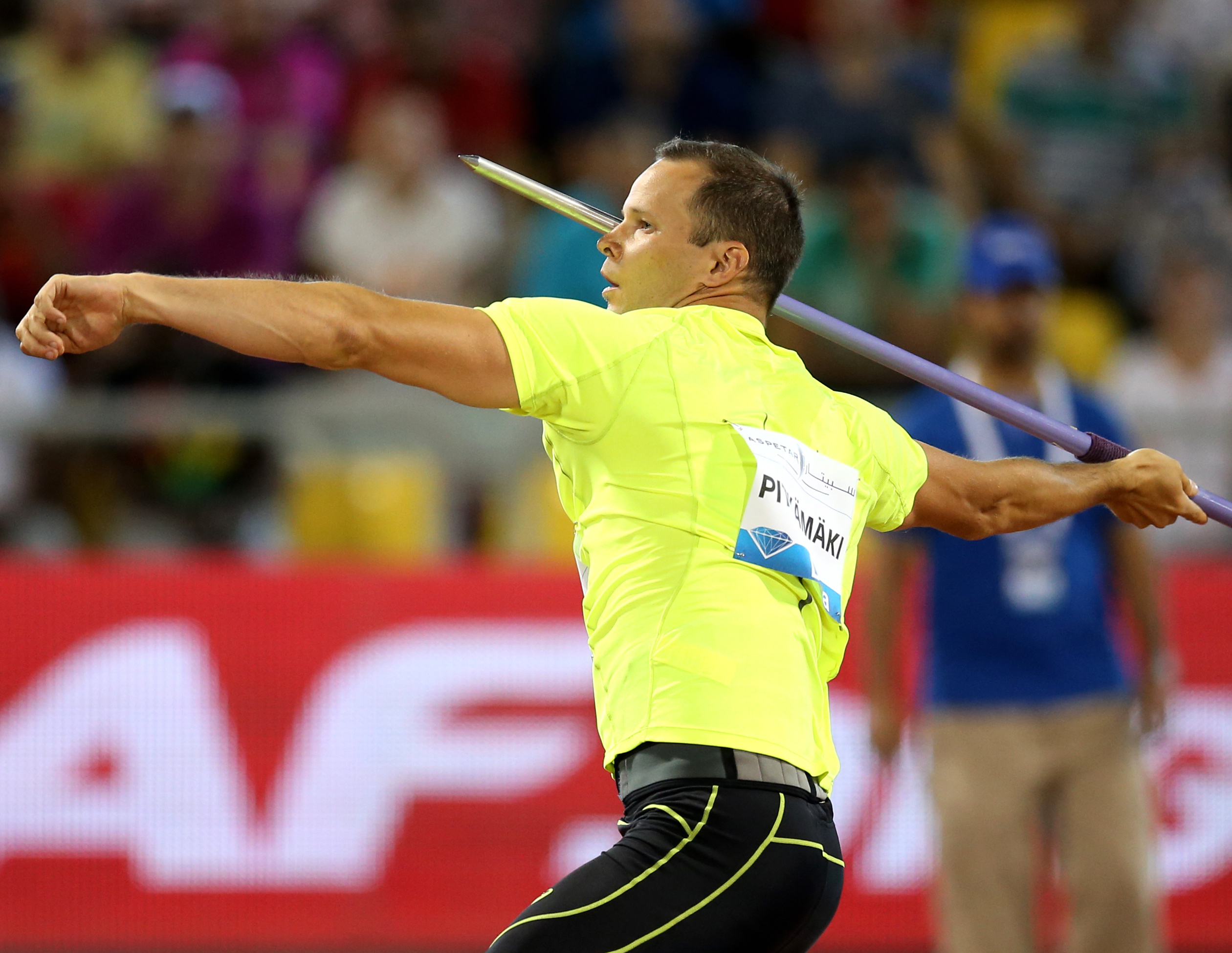 Finn Tero Pitkamaki en route to gold in men's javelin throw at the Doha Diamond League meet.